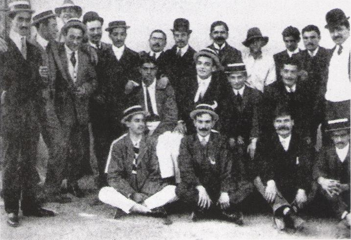 Sporting